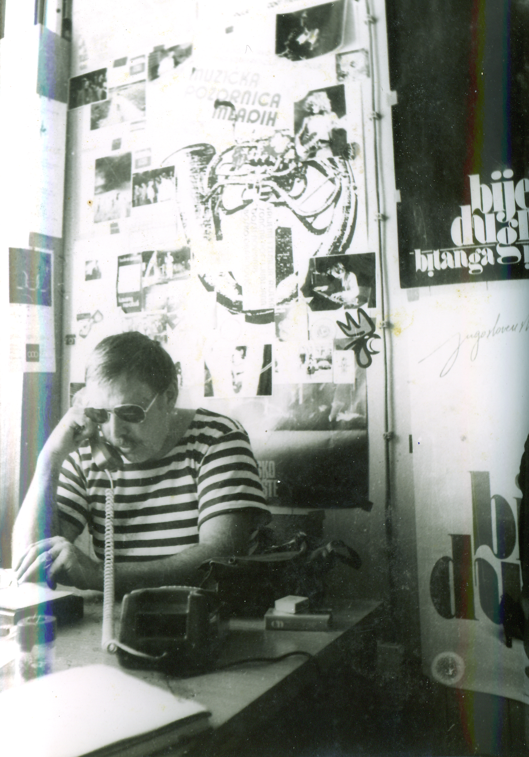 the ideologist of the rock group "Atomsko sklonište" (The Atomic Shelter) from Pula (Croatia)